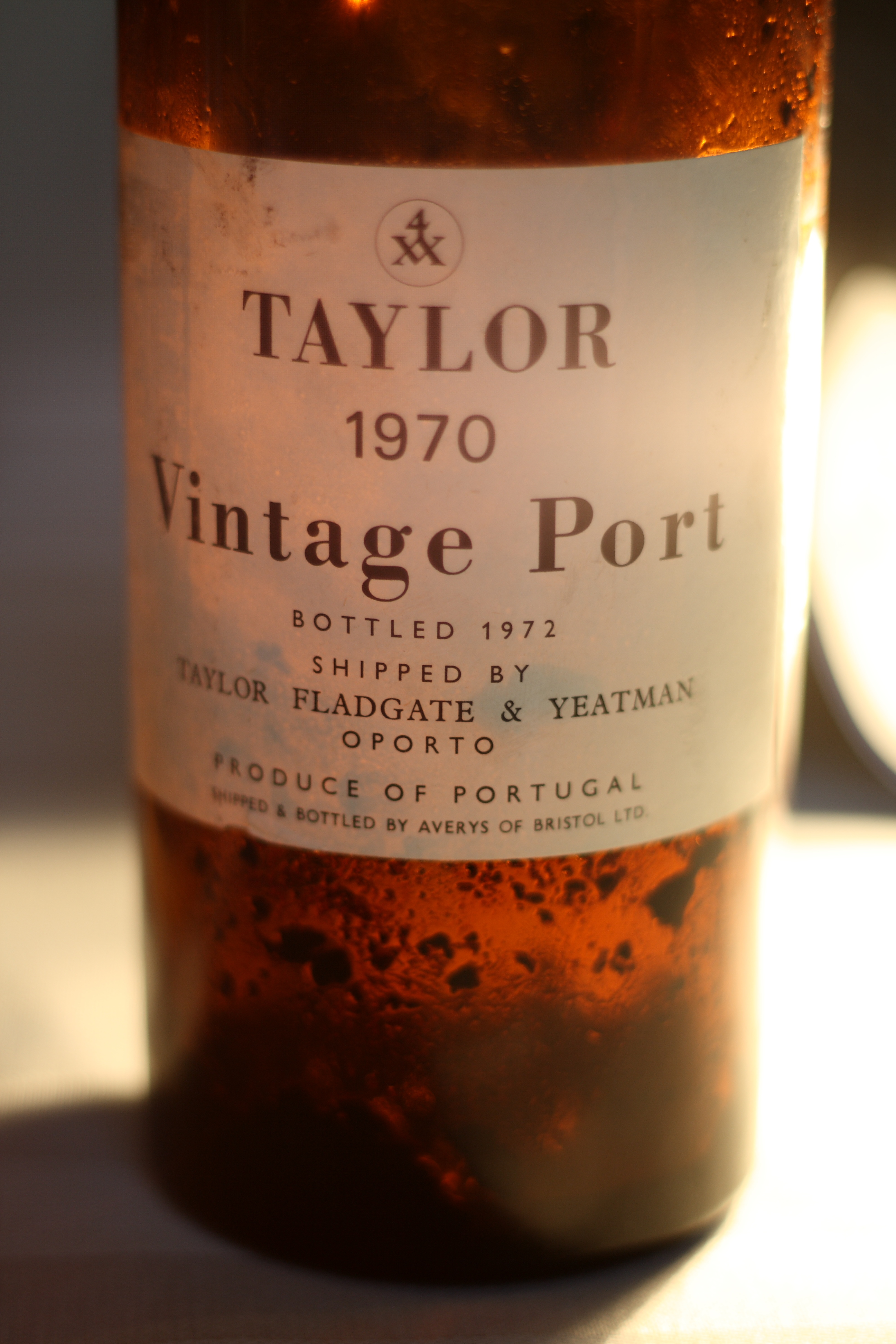 A bottle of 1970 Taylor vintage port... complete with a whole load of sediment.